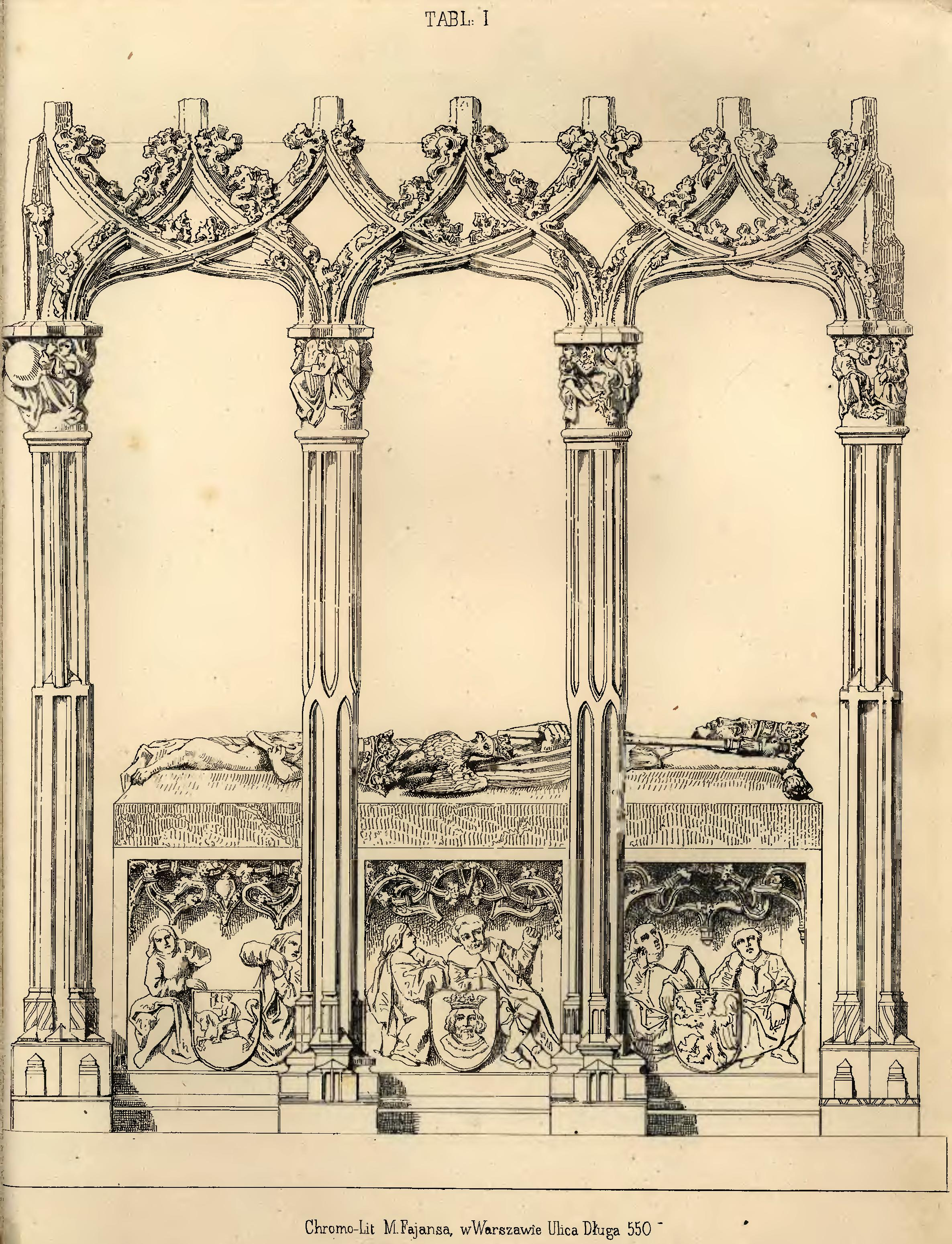 Tomb of Casimir IV Jagiellon, Wawel cathedral.